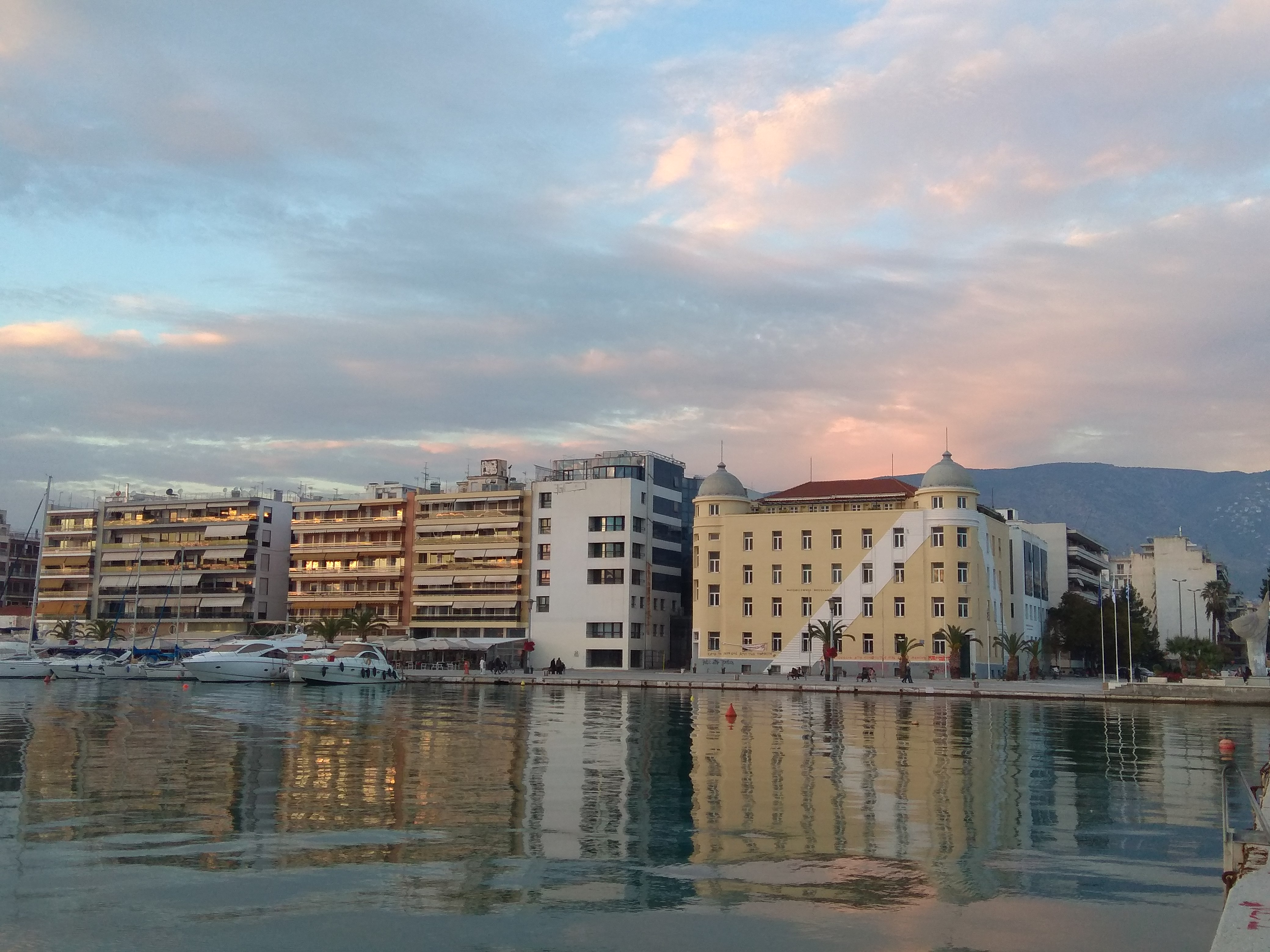 Administrative building of University of Thessaly, Volos